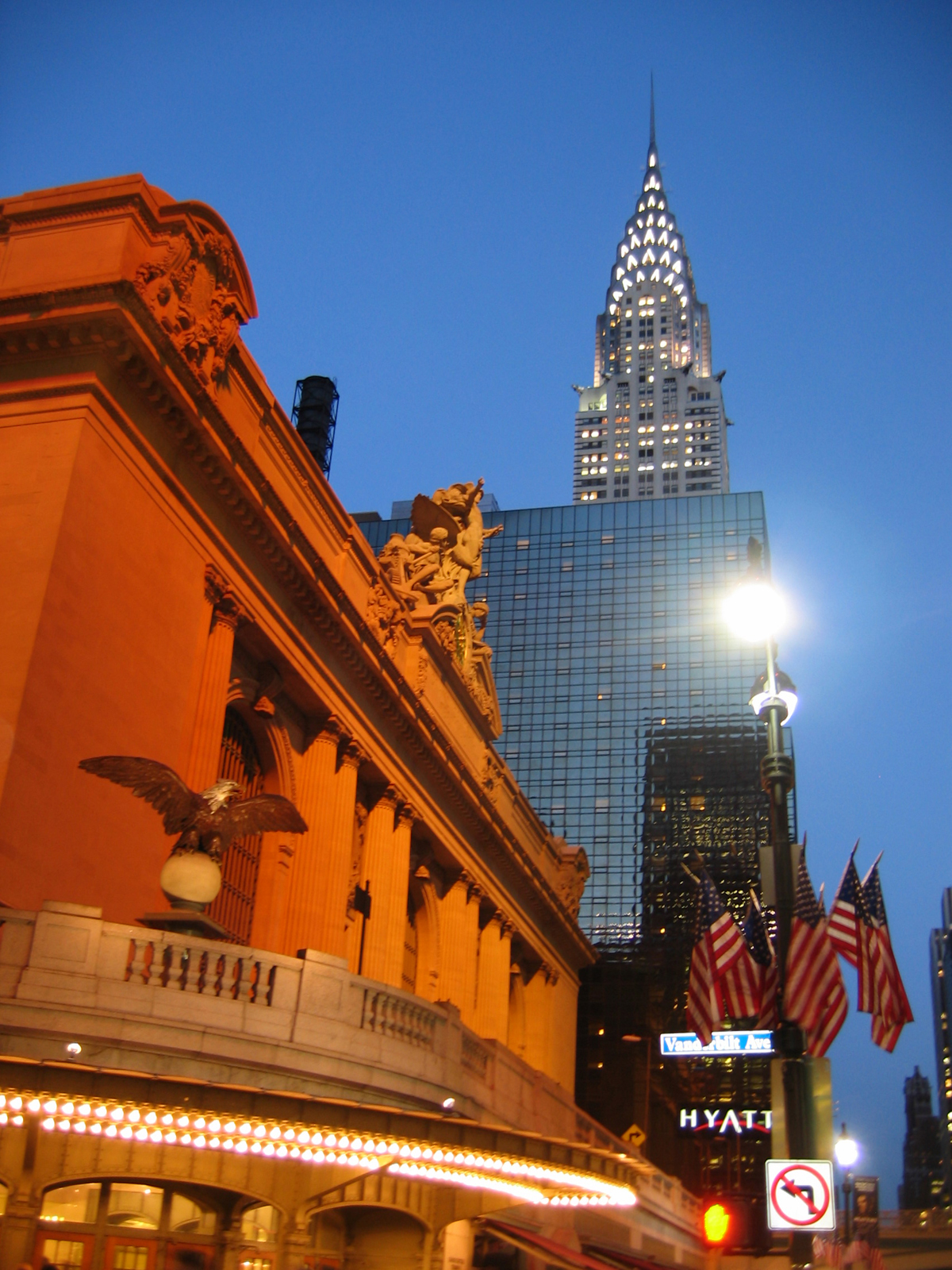 Grand Central Terminal, Grand Hyatt New York, and the Chrysler Building, along 42nd Street in Midtown Manhattan. Photo by Kmf164, taken on November 13, 2005.